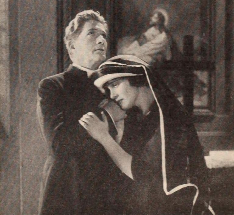 Still from the American drama film The Inside of the Cup (1921) with William P. Carleton and Edith Hallor, on page 83 of the January 29, 1921 Exhibitors Herald.